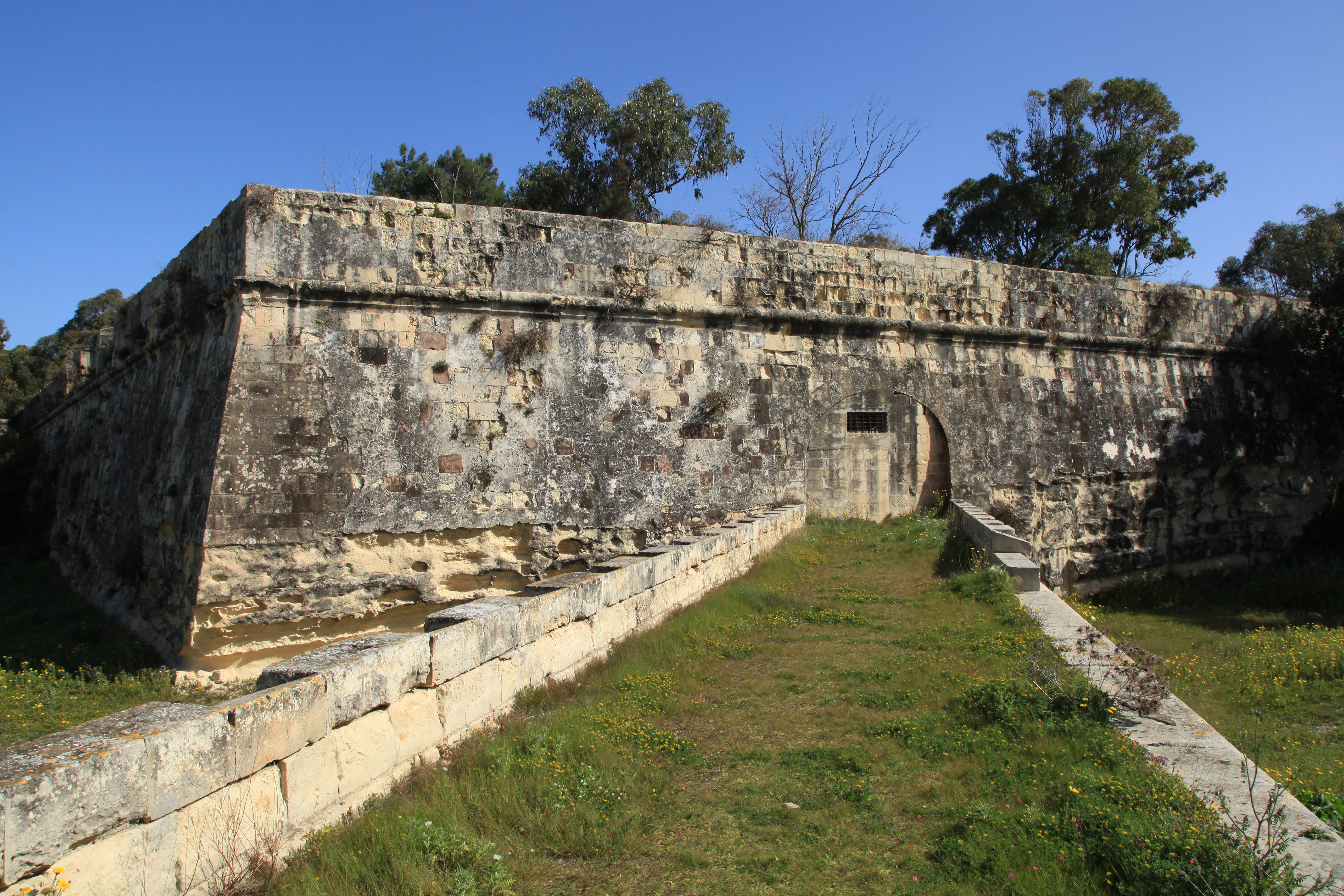 St Philip's Bastion in Floriana, Malta